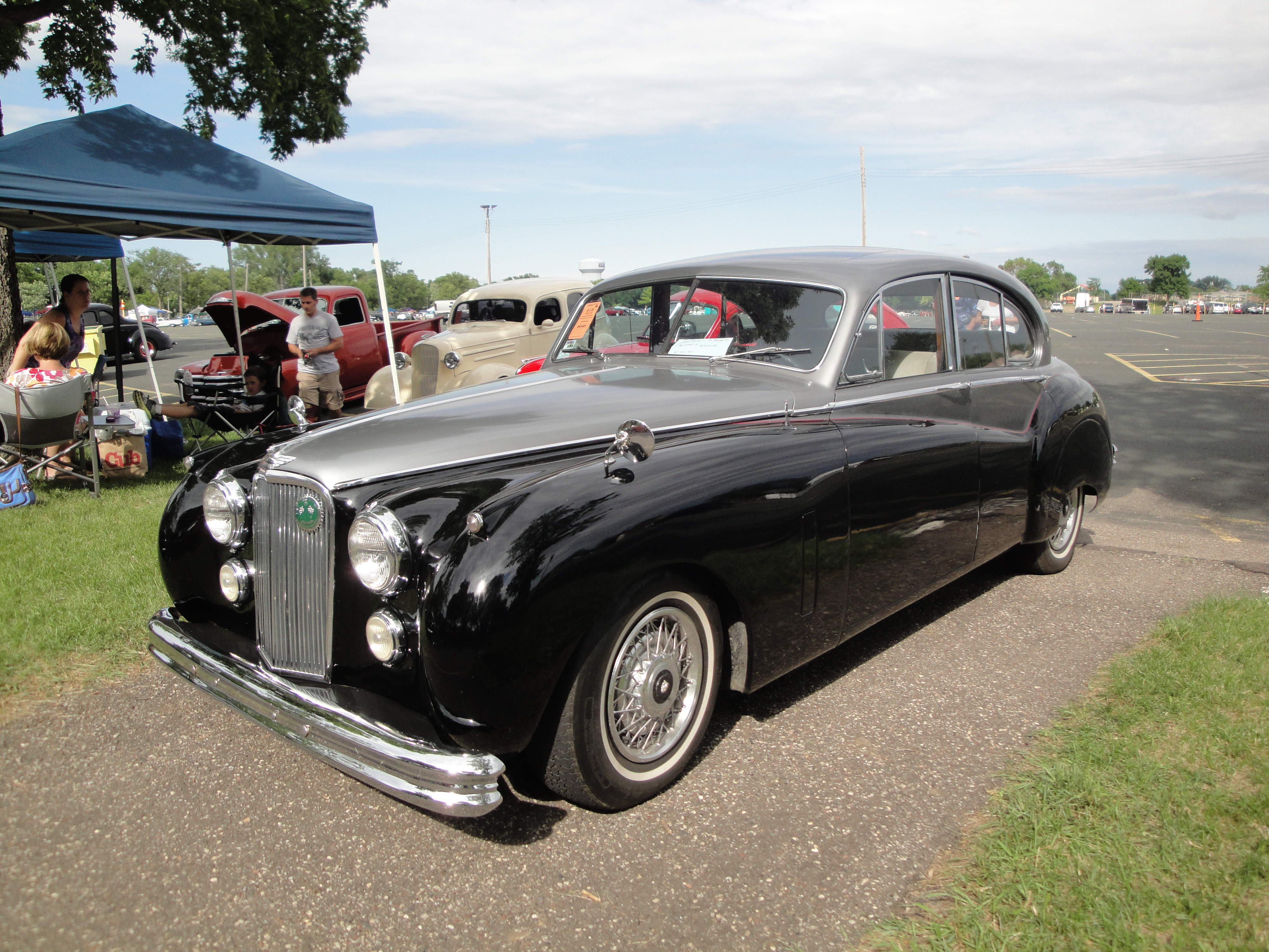 Minnesota Street Rod Association 39th Annual "Back to the Fifties" June 2012 Minnesota State Fairgrounds St. Paul MN